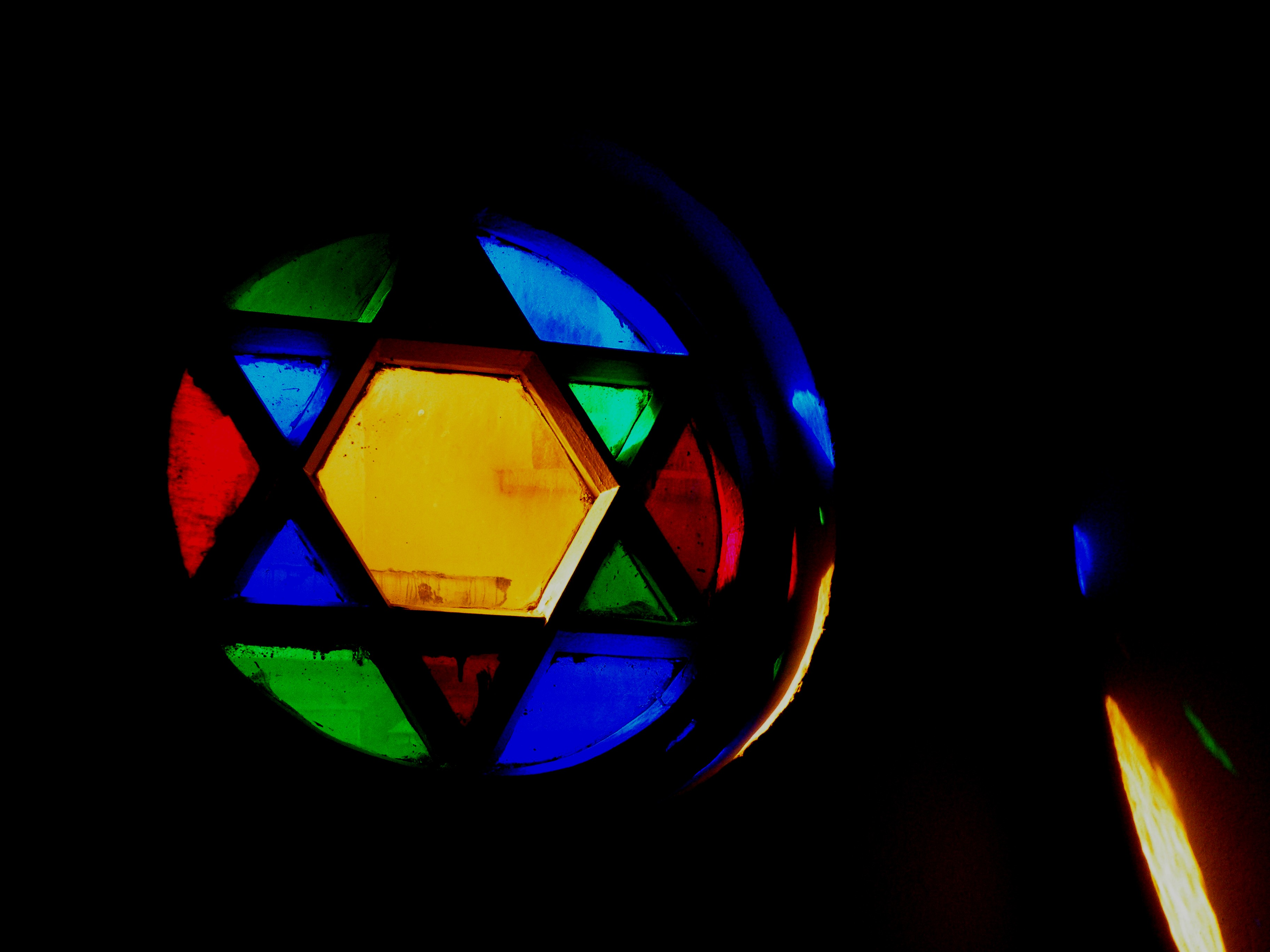 David's Star on the west wall of the Schneider Synagogue, Istanbul . "Theoretical representation of the Six Degrees of Freedom." - Aerros.